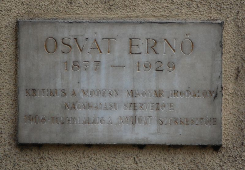 Ernő Osvát commemorative plaque in Budapest District VII, Osvát Street No 1.